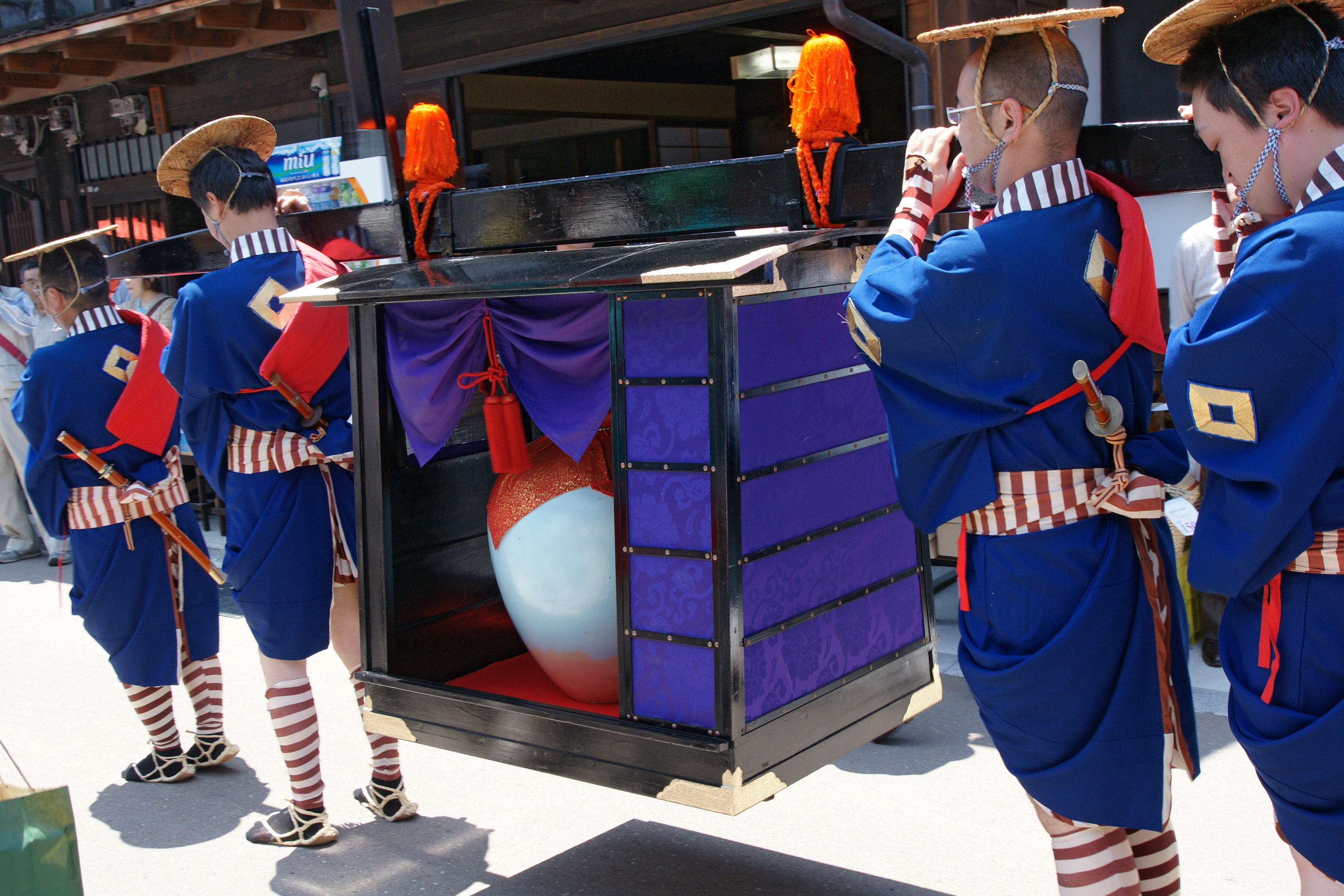 Narai-juku, Shiojiri, Nagano prefecture, Japan